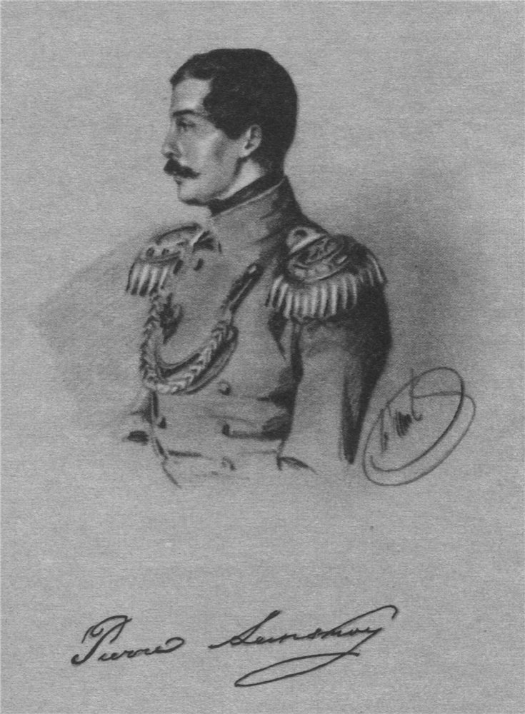 Lansky Peter Petrovich (1799—1877) - the Russian lieutenant general, since 1844 was married to Natalia Nikolaevne Goncharov, Pushkin's widow.